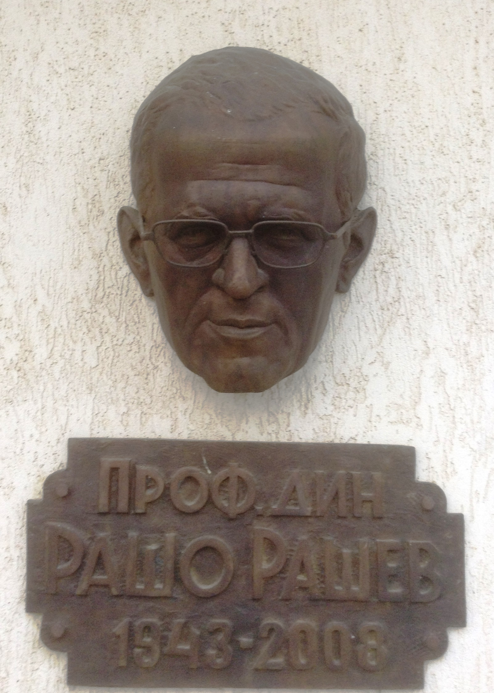 Bas-relief of the Bulgarian archeologist Rasho Rashev in front of the museum in the Pliska National Historical Archeological Reserve